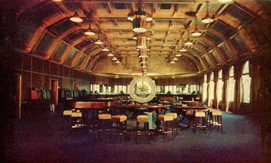 Photo of the casino at the Cal-Neva Lodge at Lake Tahoe from a postcard.